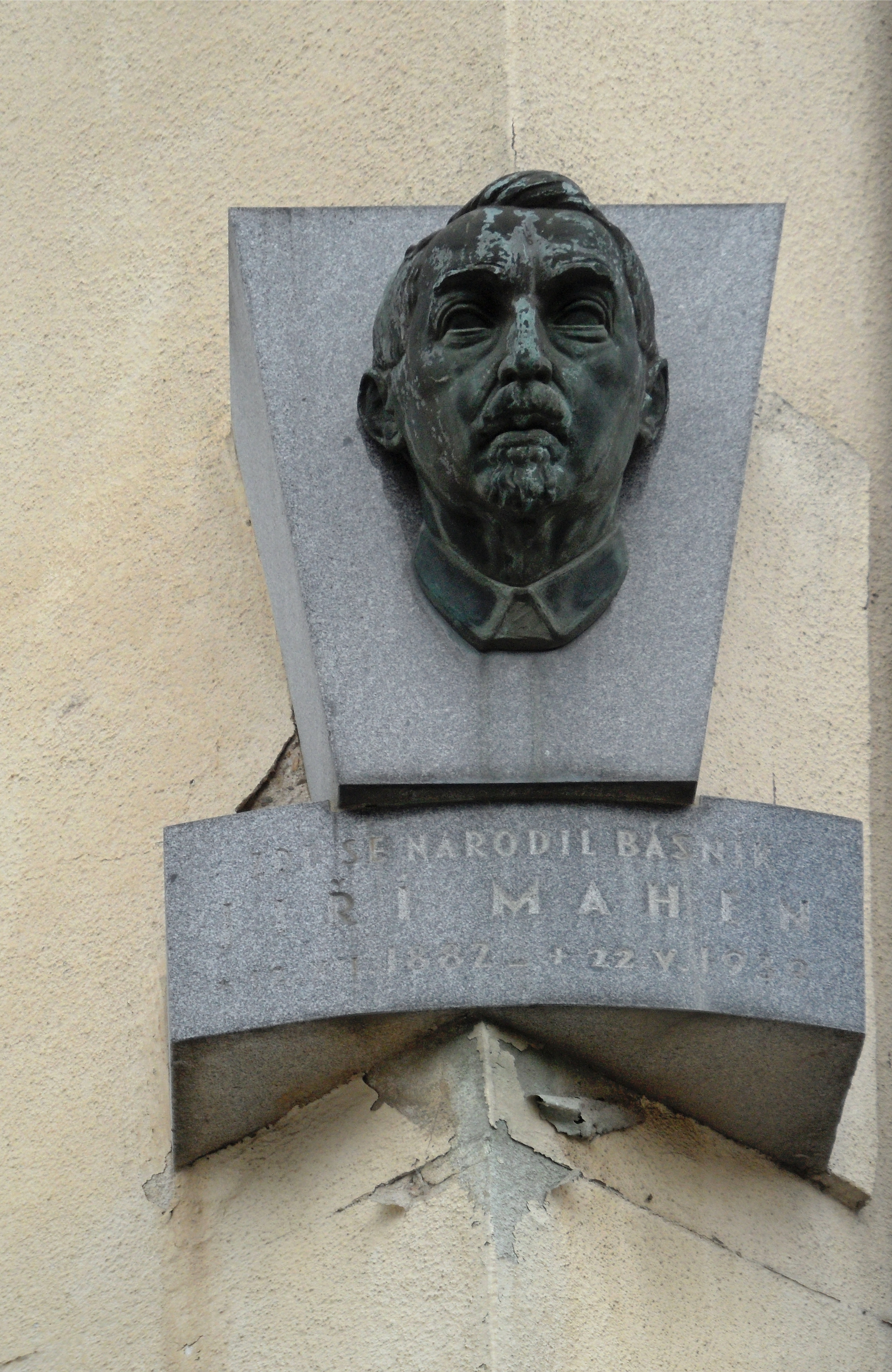 Čáslav, poet, journalist, director Jiří Mahen: Memorial Plaque (crossroads of now Jiřího Mahena street and Generále Moravce, No. 13). Kutná Hora District, the Czech Republic.